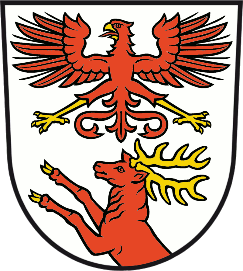 Coat of arms of Müllrose